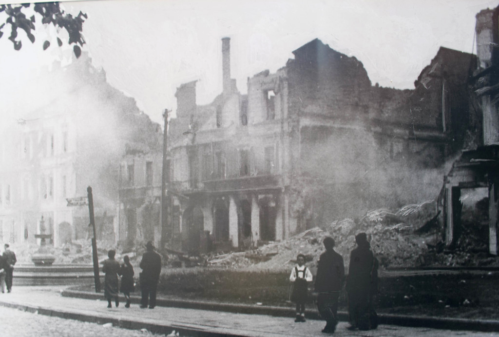 A photo of smouldering ruins in Nazi occupied Białystok, 1941. Zbiory NAC on-line. Exact location in Białystok is not specified at the source.